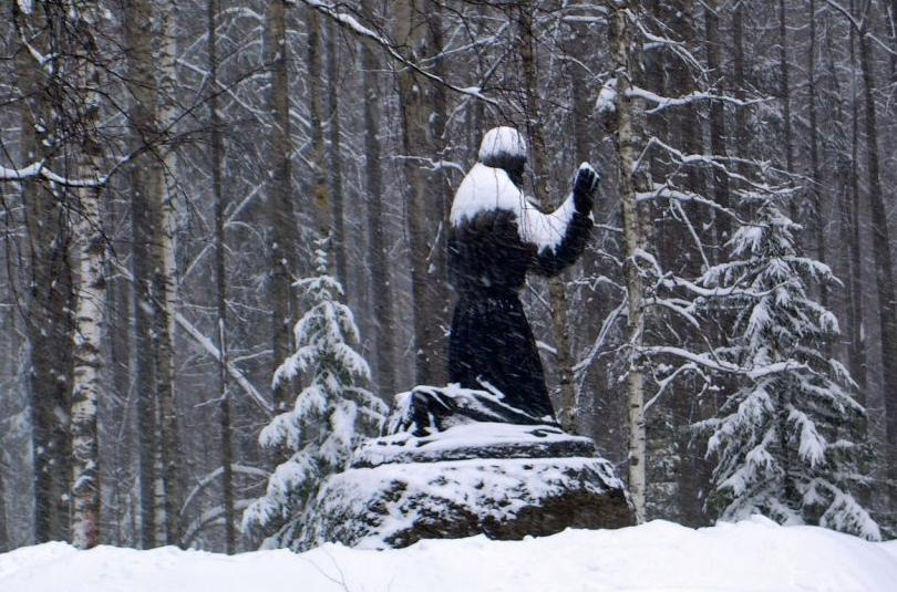 Saint Seraphin statue in Sarov